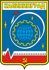 Korolyov (Kaliningrad, Moscow oblast), coat of arms (1988)